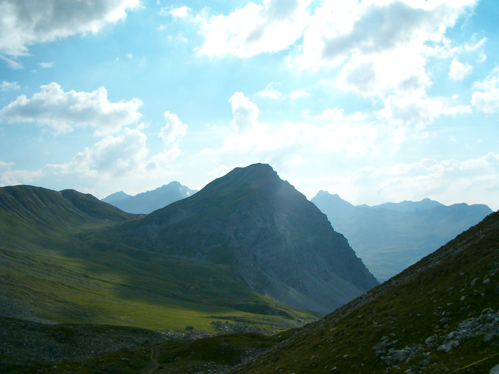 Schiesshorn at Arosa/Switzerland